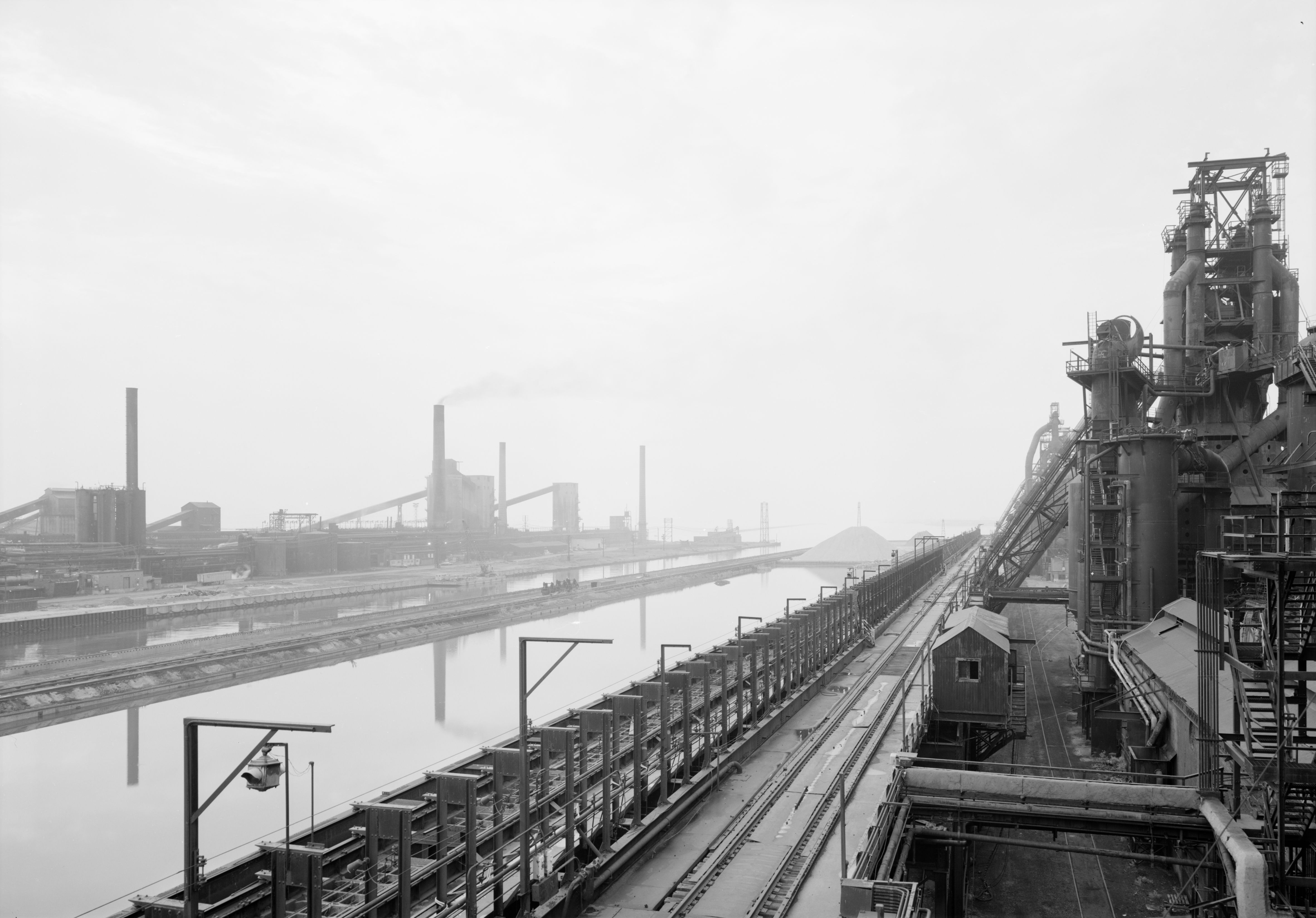 Bethlehem Steel Corporation, Lackawanna Plant, Route 5 on Lake Erie, Buffalo vicinity, Erie County, New York. Looking south-southeast up the ship canal.